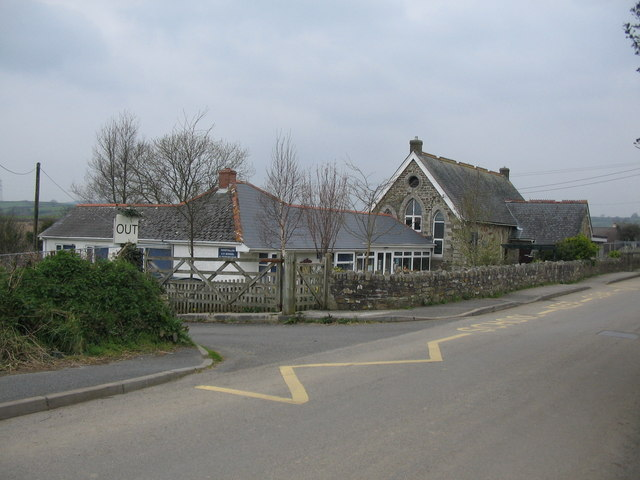 Nanstallon Primary School A view looking to the northwest towards the primary school at Nanstallon.